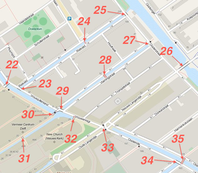 Map has bridges marked in the centre area of Delft. Map is based on Part 3 of 6.